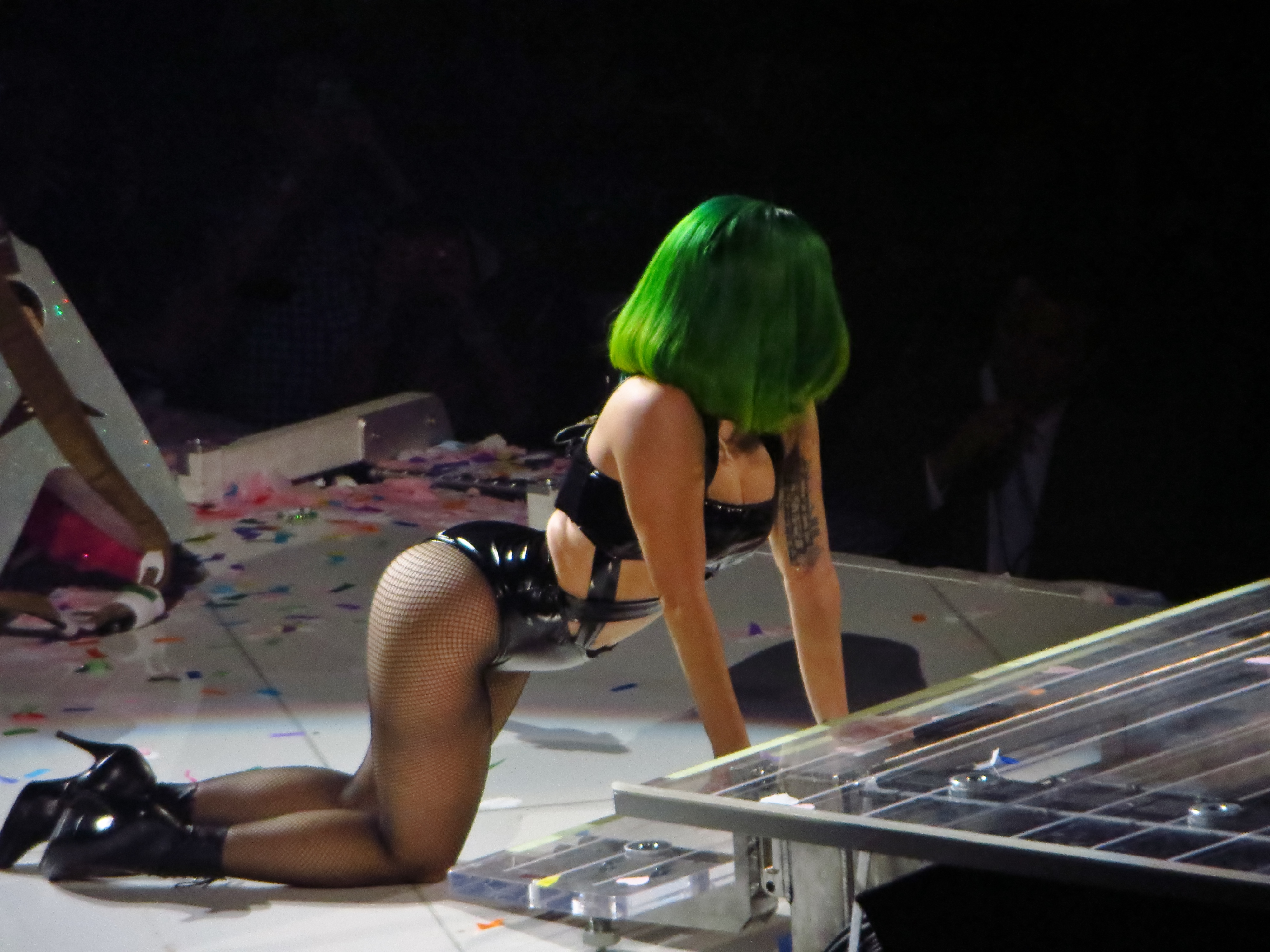 Lady Gaga, ARTPOP Ball Tour, Bell Center, Montréal, 2 July 2014 (88) Gaga performing on ArtRave: The Artpop Ball tour